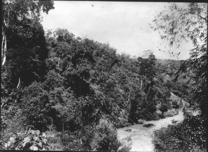 Photograph. The Citarum River flows through the forests of the Preanger